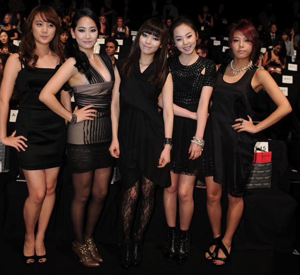 monder Girls at the fashion show Concept Korea, Interactive Waves 2011 in New York City